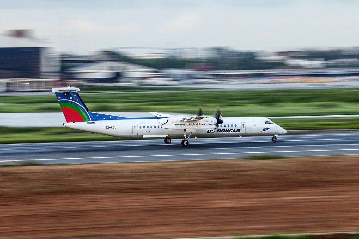 Us Bangla Airways On fire